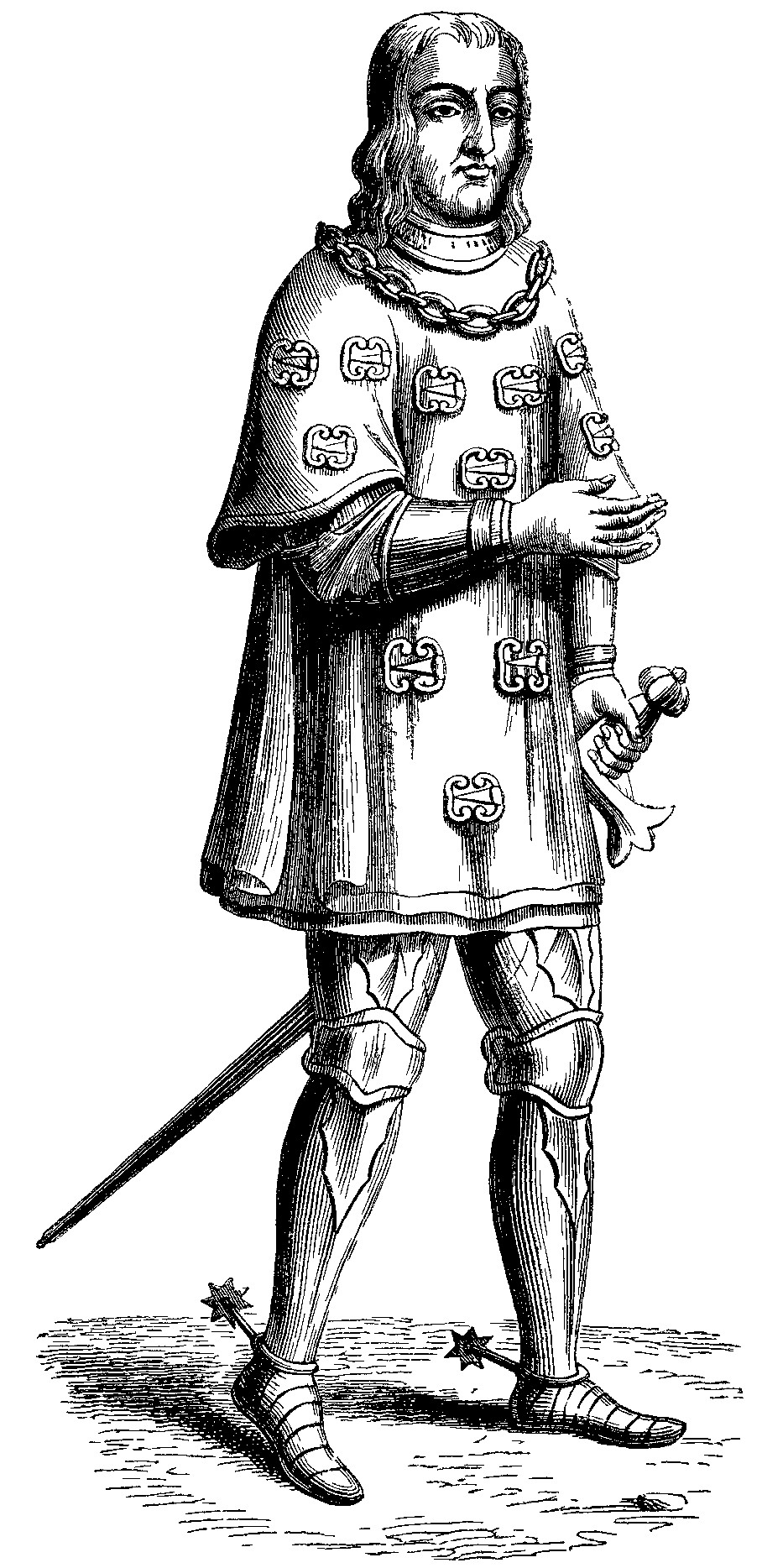 Admiral Malet de Graville